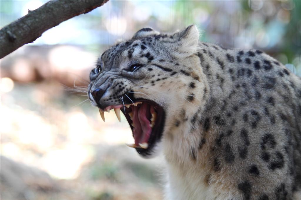 Snow Leopard at Taronga Zoo, Sydney, Australia.